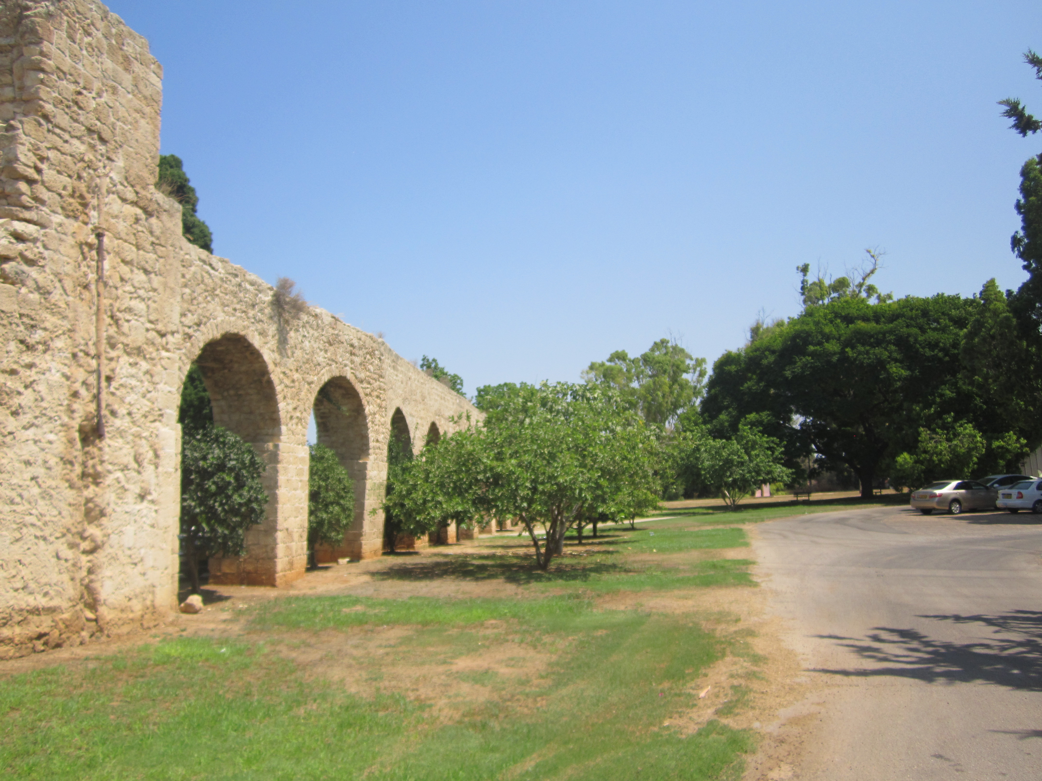 remains of ancient aquaduct near Manof youth village acre